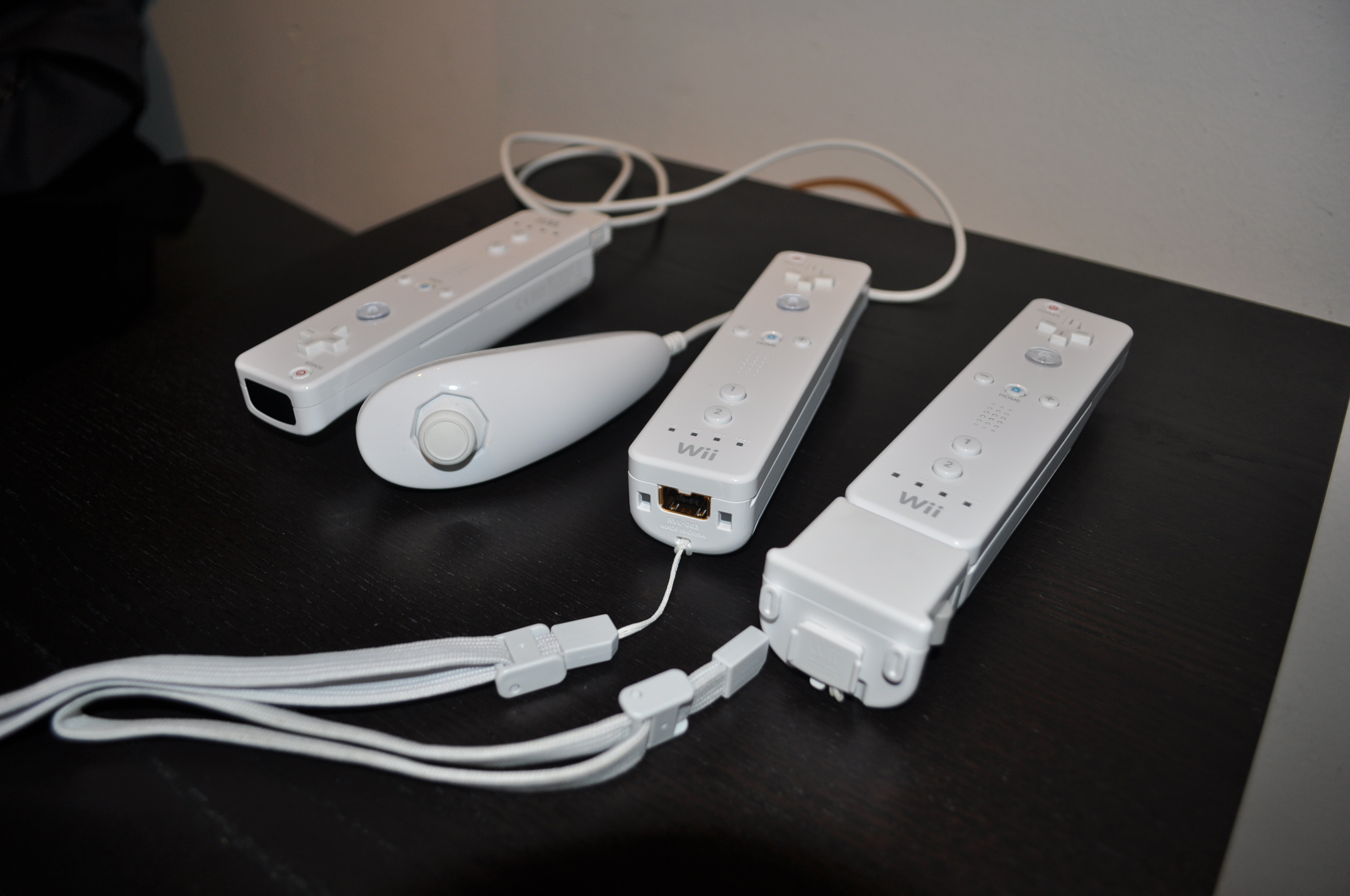 Wii controller, WiiMote, Nunchuk, Wii Motion Plus